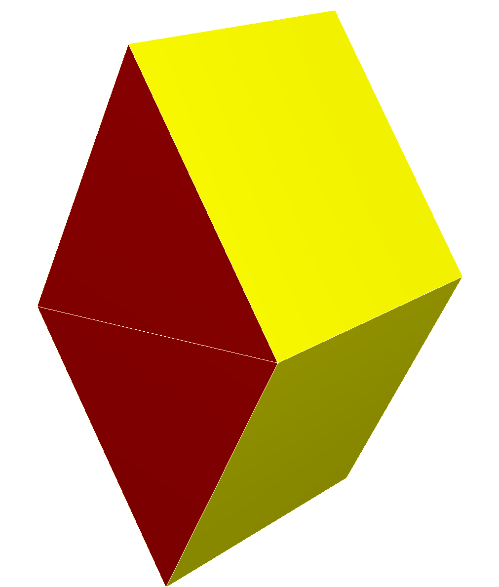 Two triangular prisms together